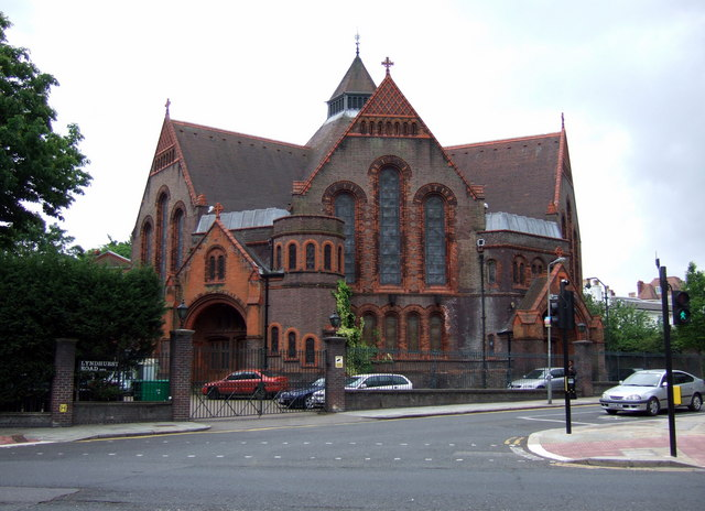 AIR Studios, Lyndhurst Road, Hampstead, London. Designed by Alfred Waterhouse and built in 1884 as Lyndhurst Road Congregational Church. Converted into recording studios in 1991.